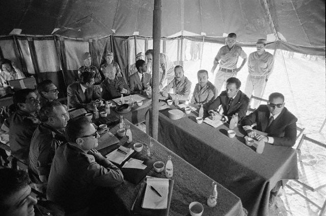 Egypt and Israel sign a cease fire agreement on Nov. 11, 1973. From the booklet "President Nixon and the Role of Intelligence in the 1973 Arab-Israeli War." For more information, visit